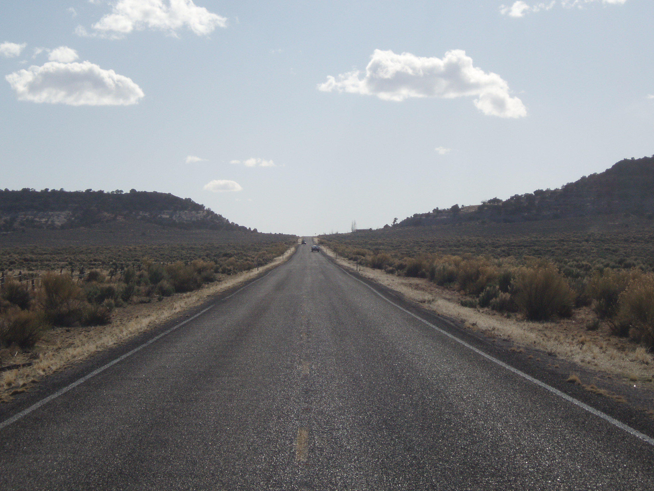 Utah State Route 211 runs westward through Dry Valley to Photograph Gap, site of the utopian community called Home of Truth, now a ghost town.